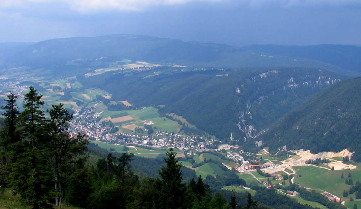 The village Court in the north of the Canton Bern (Switzerland). View from the south-east. On the right hand the Gorges de Court, where the river Birse/Birs flows to the north through a ridge of the Jurassic mountains (Jura) and the construction of the Transjurane a new motorway/freeway.